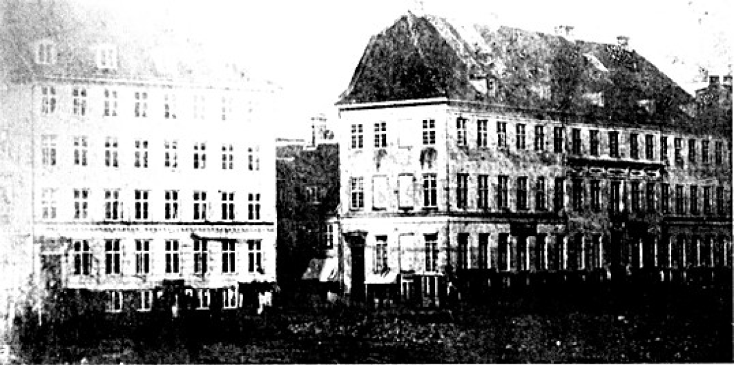 Kongens Nytorv. Daguerreotype. Only a copy from c. 1900 exists, done by Frederik Riise.